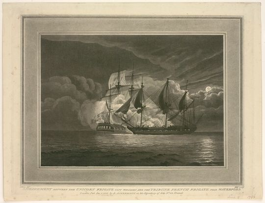 'Engagement between the Unicorn Frigate Capt Williams and the Tribune French Frigate near Waterford'